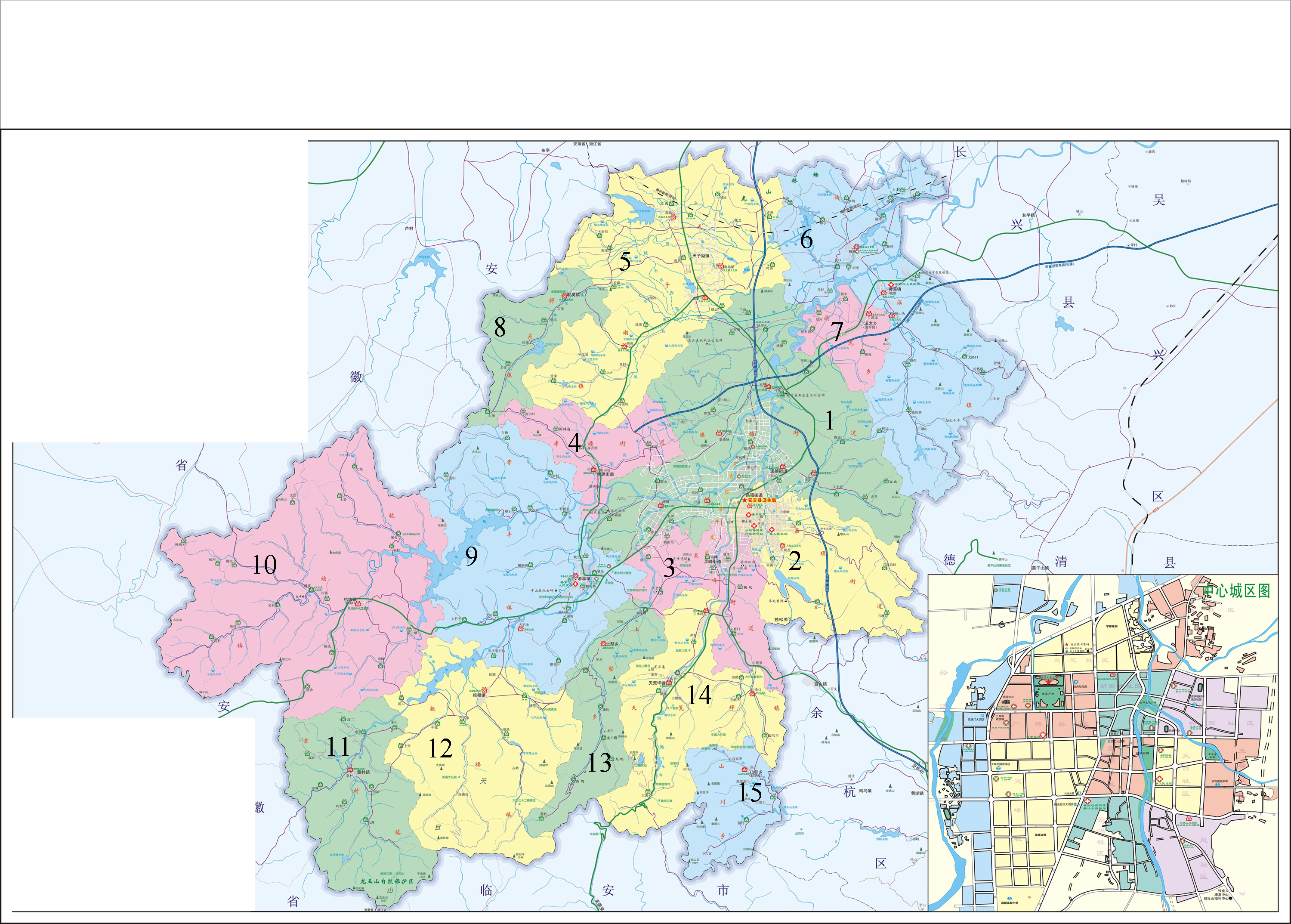 The numbers show different towns or subdistricts.